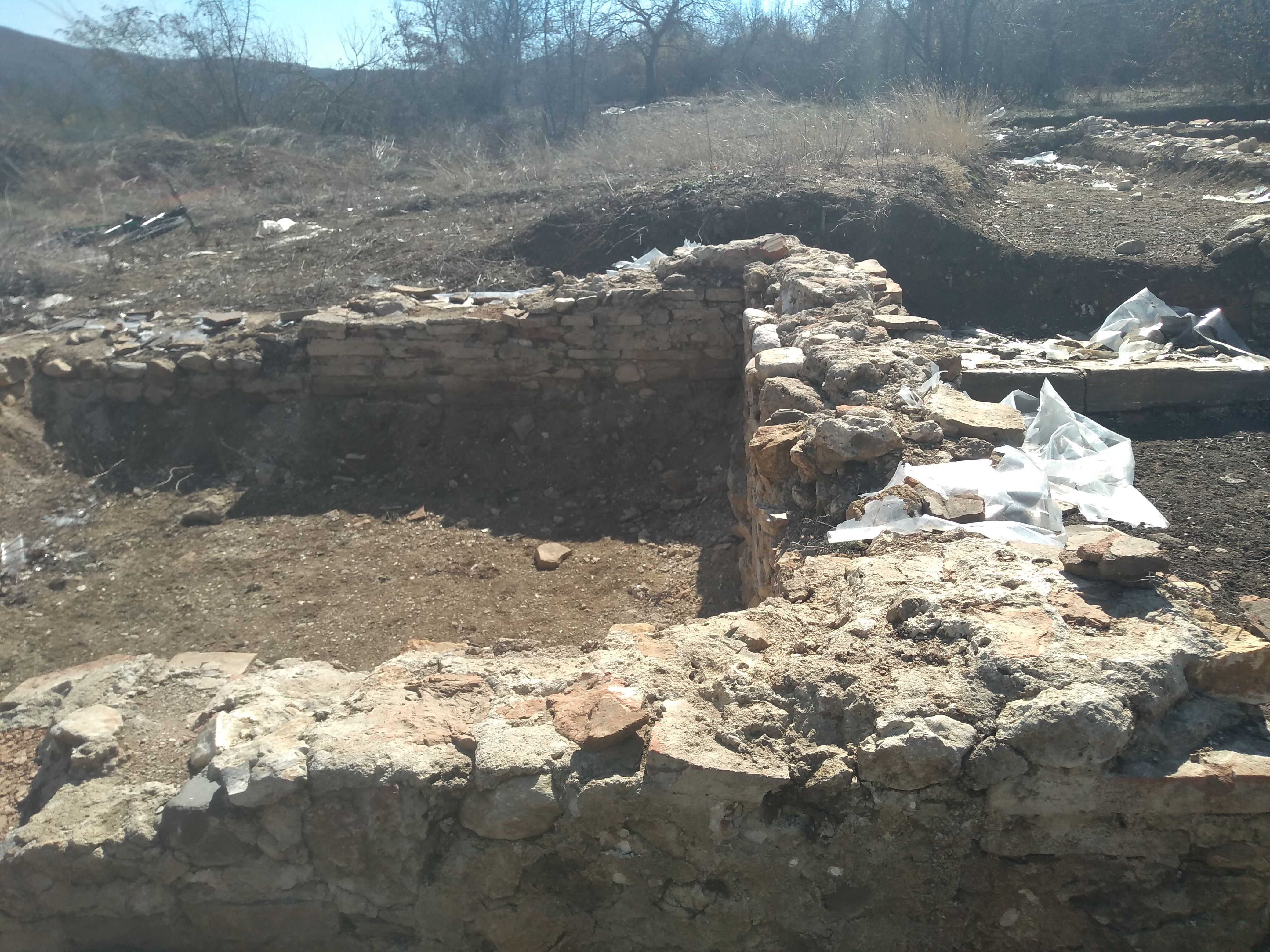 Ruins of the ancient roman city-fortress of Baderiana, near the village of Bader, Macedonia